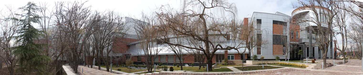 AryoGen Biopharma Complex is located in Tehran - Karaj Road. The complex land area is more than 22000 sqm and there are 4 active production line for biopharmaceuticals and 2 provision line for further development.